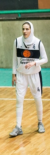 Iranian women basketball league